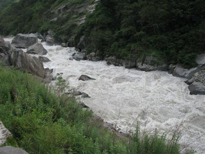 Vishnuprayag is one of the Panch Prayag (five confluences) of Alaknanda River in Uttarakhand, India.